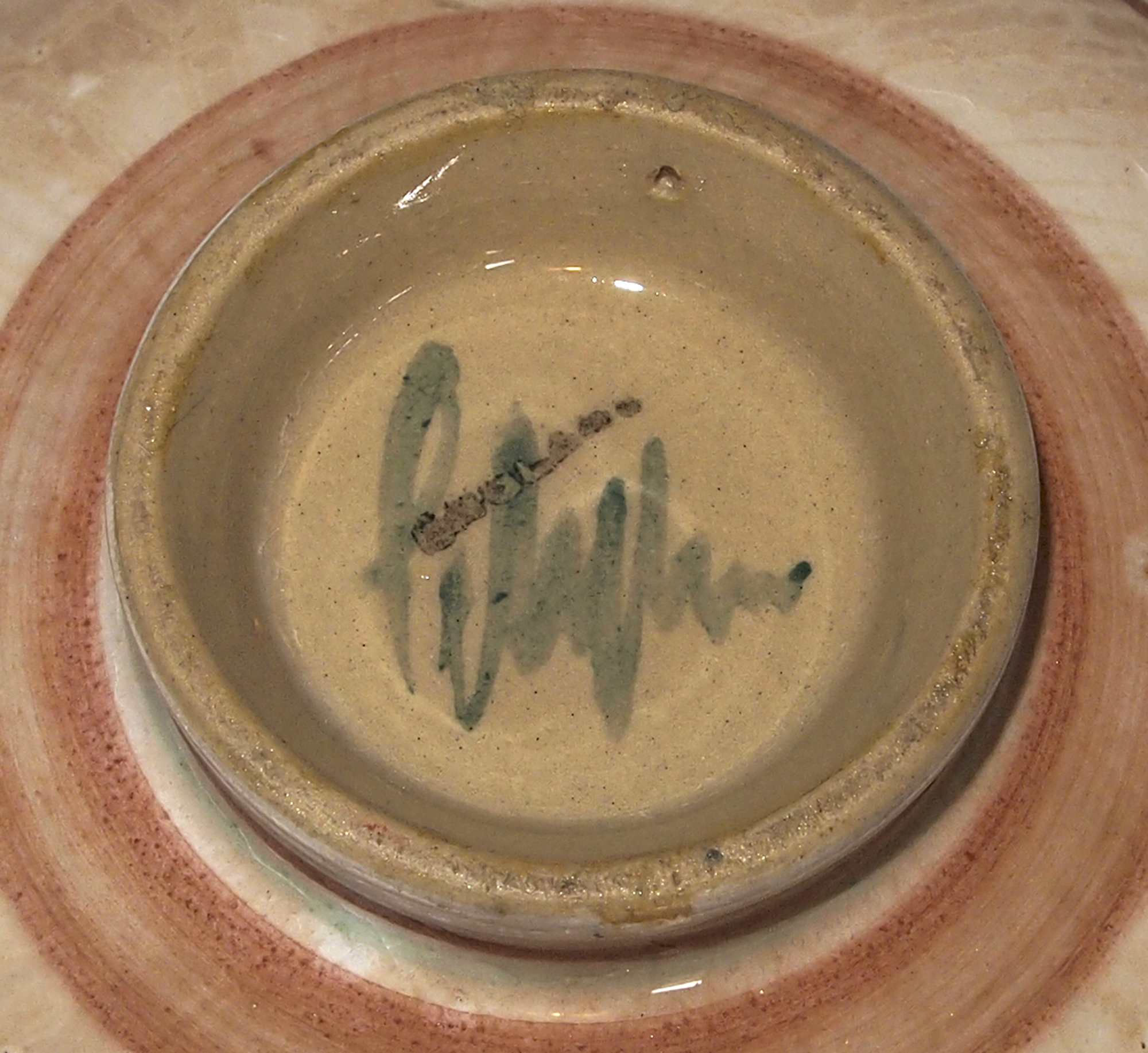 Painted signature of Glyn Colledge and rubber-stamped Denby mark on base of bowl